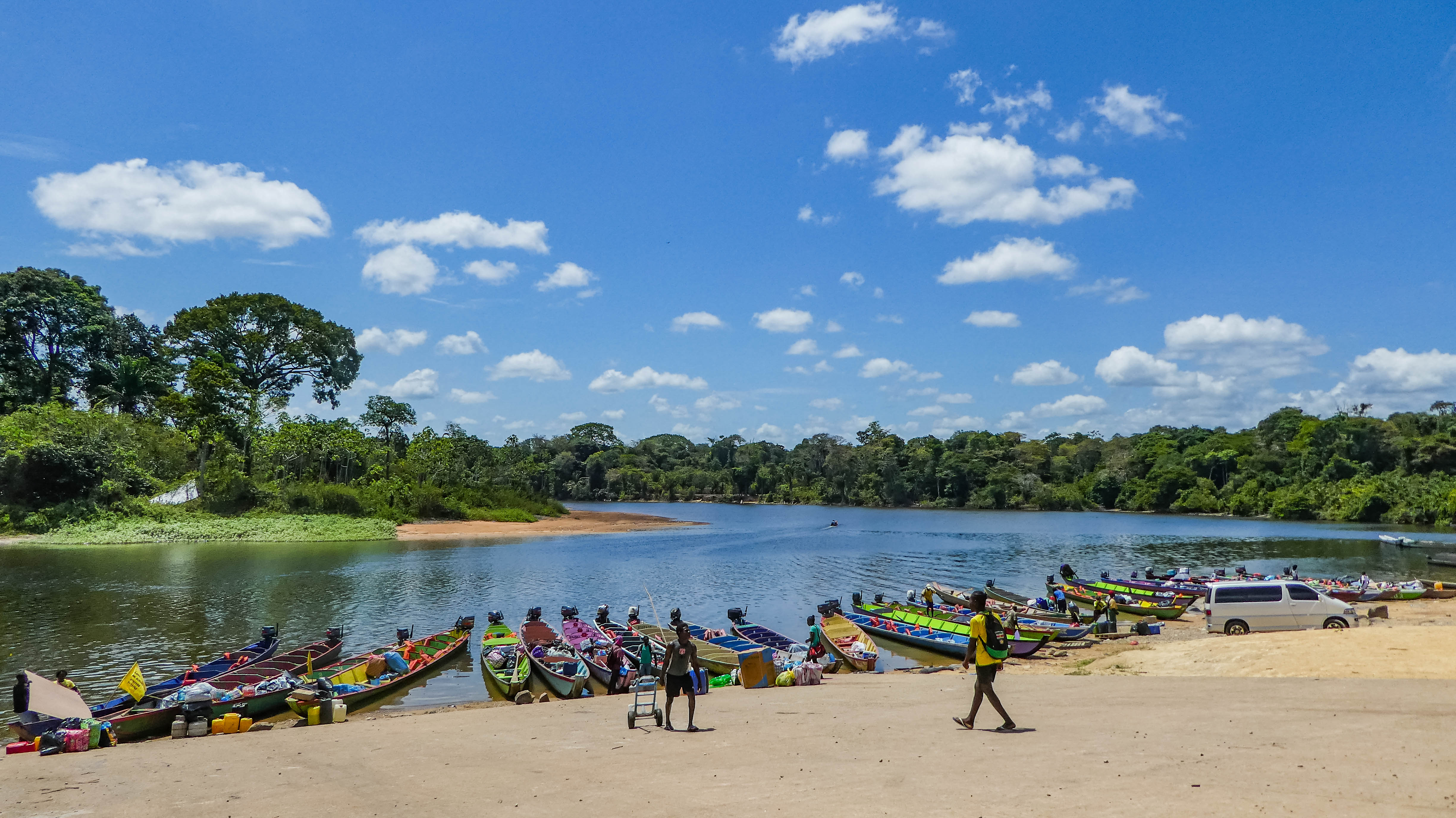 The harbor of Atjoni or Adjoni, near Pokigron in Suriname, where the road stops and travel has to continue in boats